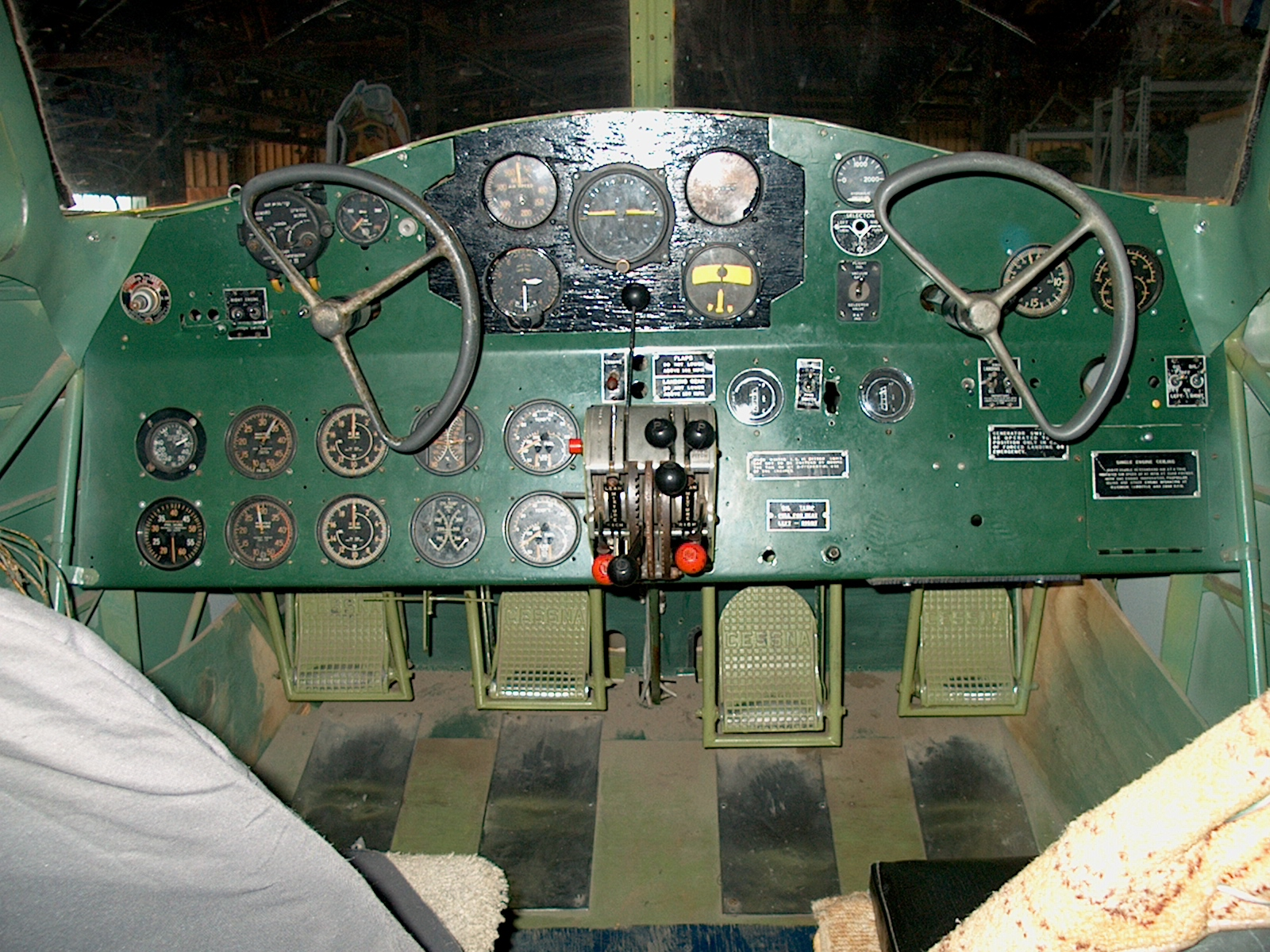 Cessna Crane cockpit interior